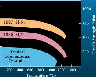 Si3N4 strength diagram